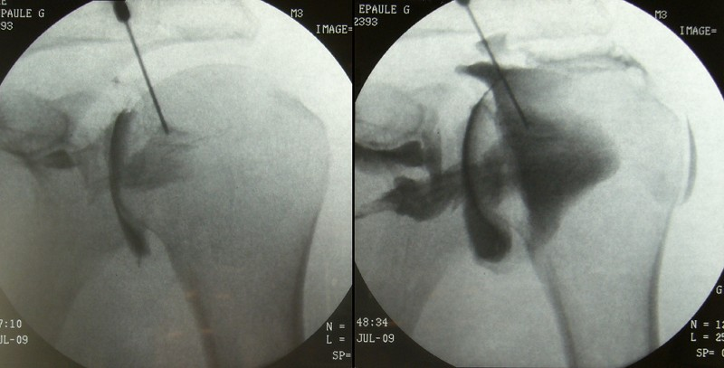 Arthrography